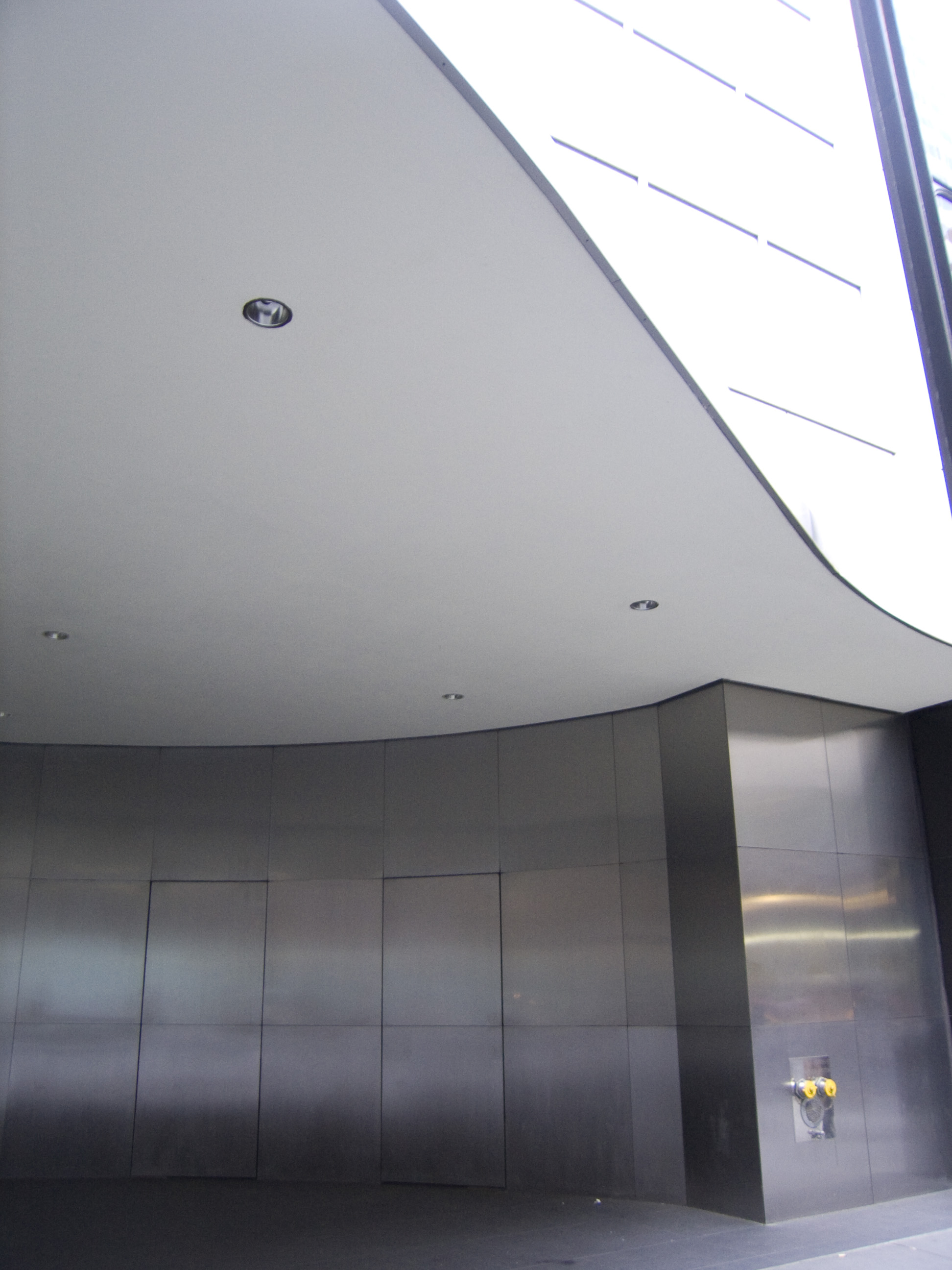 Wikipedia Loves Art at the Film Society of Lincoln Center This photo of Museum of Modern Art Department of Film and Video supported by the Film Society of Lincoln Center was contributed under the team name "The_Grotto" as part of the Wikipedia Loves Art project in February 2009. The original photograph on Flickr was taken by cjn212—please add a comment to the original Flickr page whenever a use has been made on Wikipedia or another project. Project galleries on Flickr: this institution, this team